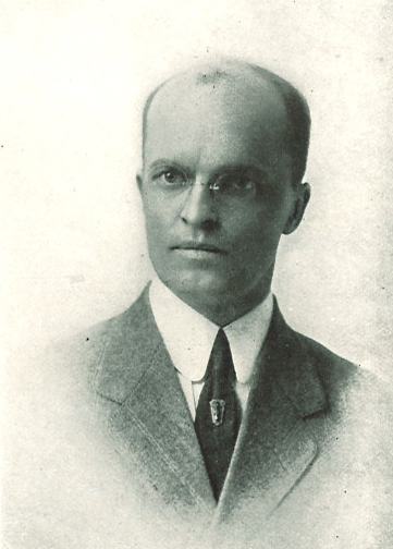 Photograph of E. G. Schroeder